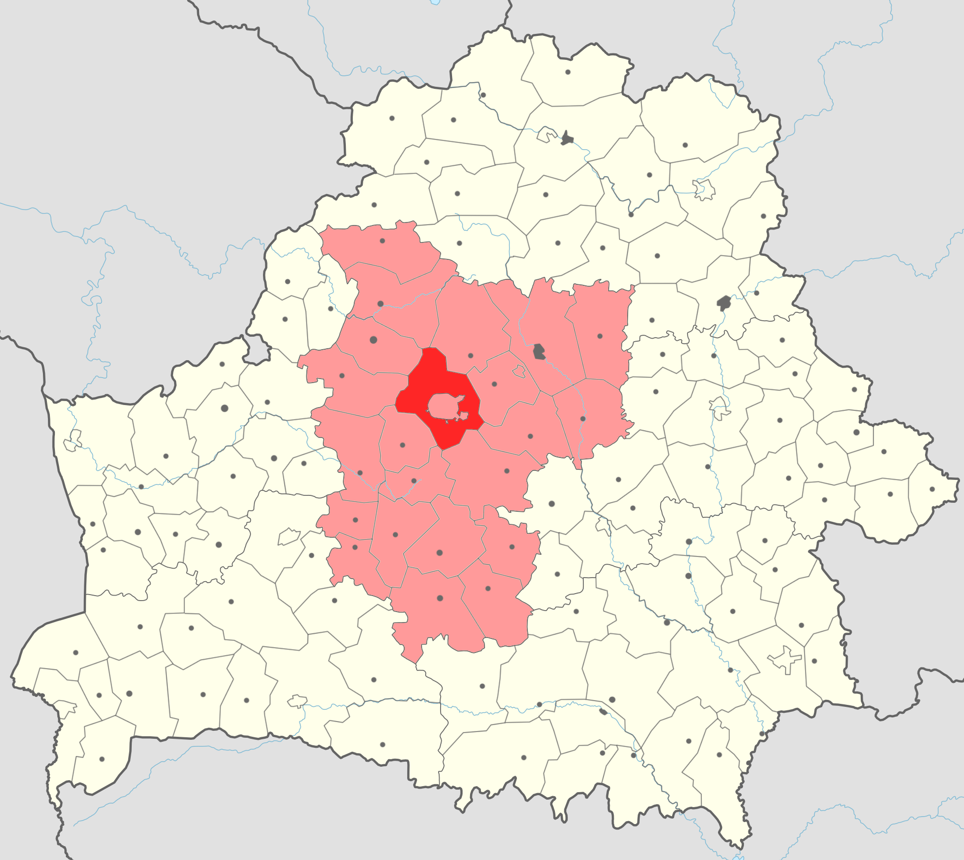 Map of Minsk rayon (in red) with Minsk voblast' (in light red) on the map of Belarus. Minsk is a self-governed city.